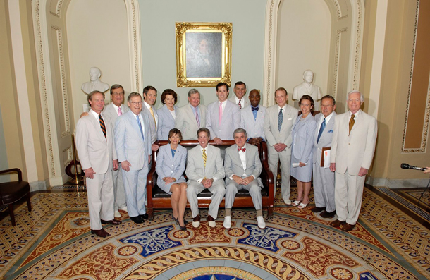 US Senators celebrating Seersucker Thursday